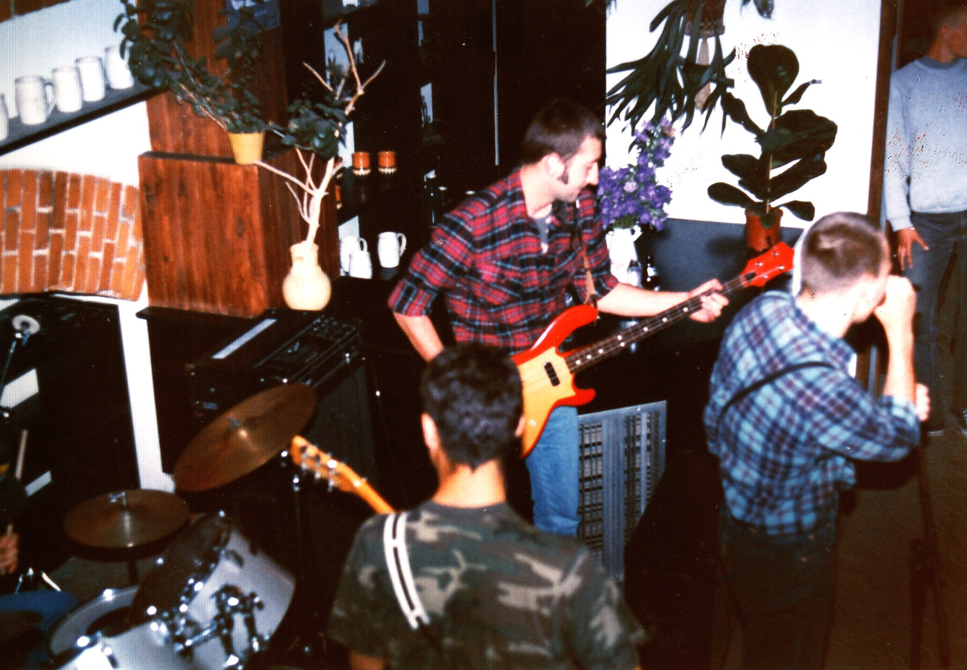 Concert in Torun 1992.